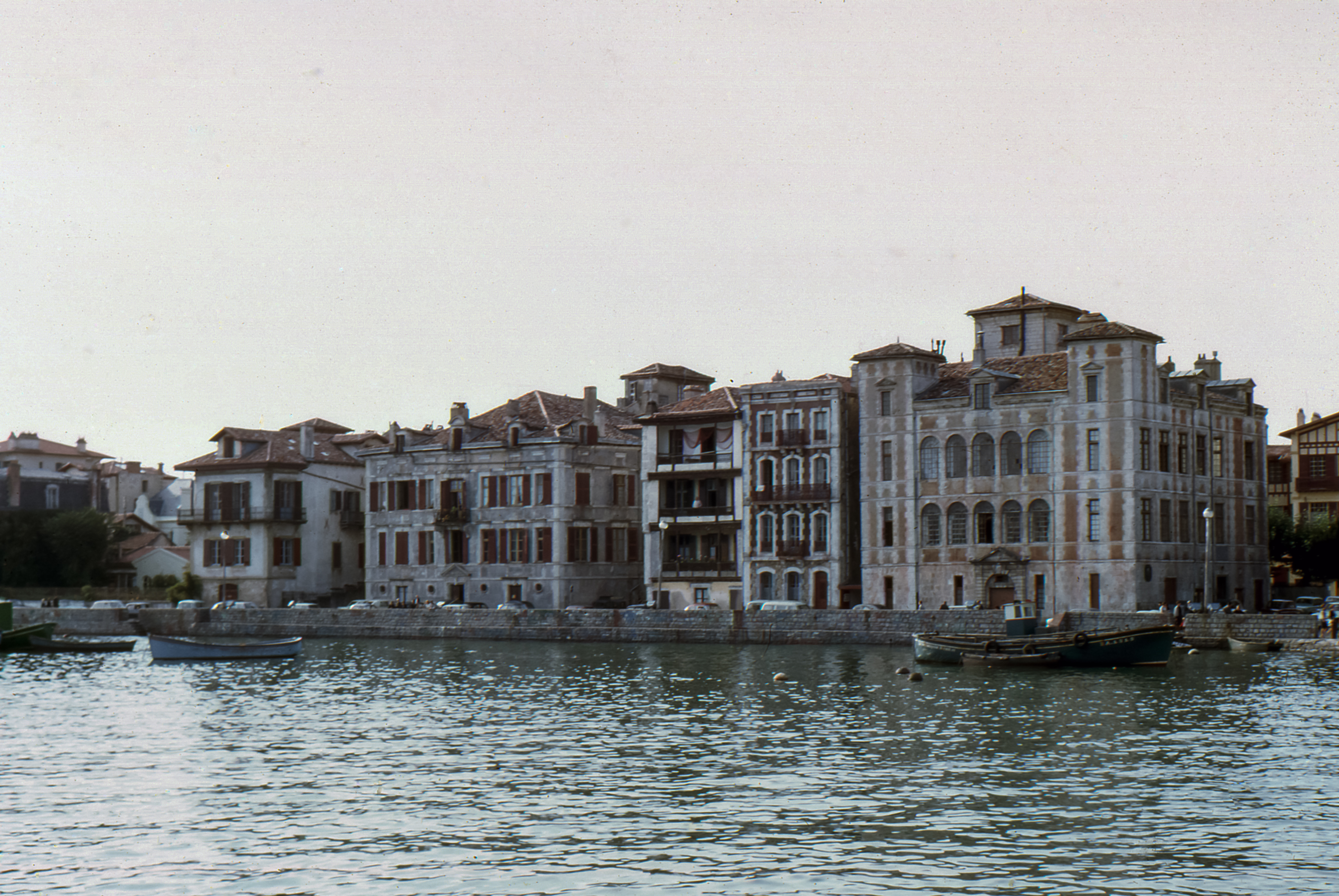 The Maison de l'Infante before the invasion of the port ...